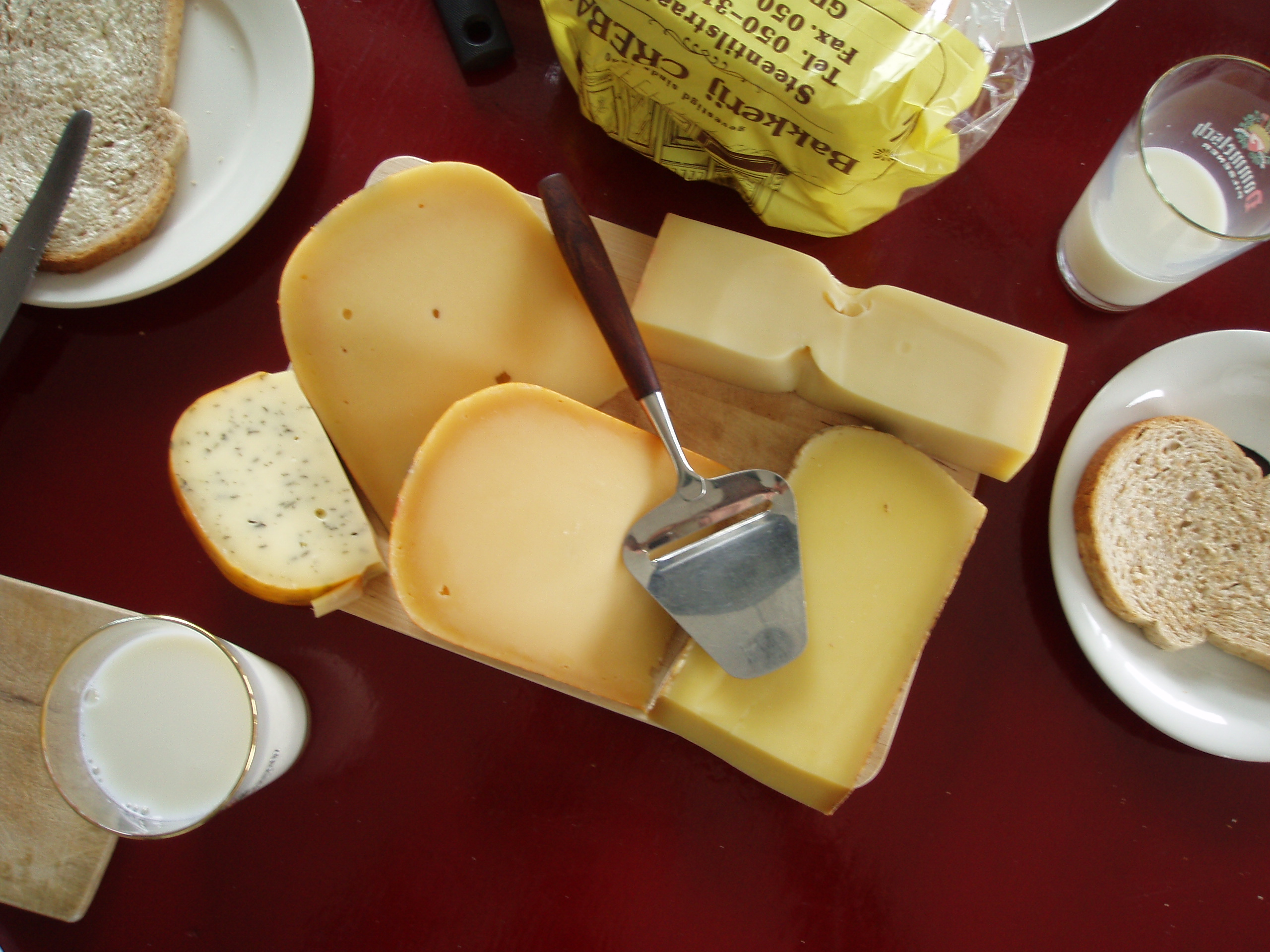 Several cheeses with a slicer, bread and milk.